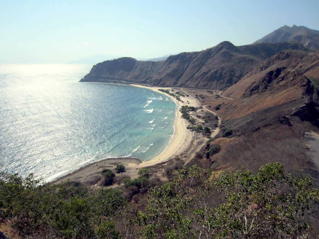 Dolok Oan Beach on the east side of Cape Fatucama.